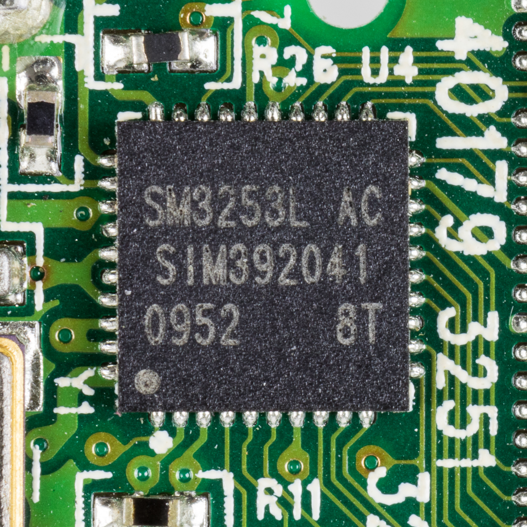 Lexar USB stick 8 GB - Silicon Motion SM3253L - USB2.0 Single-Channel Flash Controller. Package: 40-pin QFN